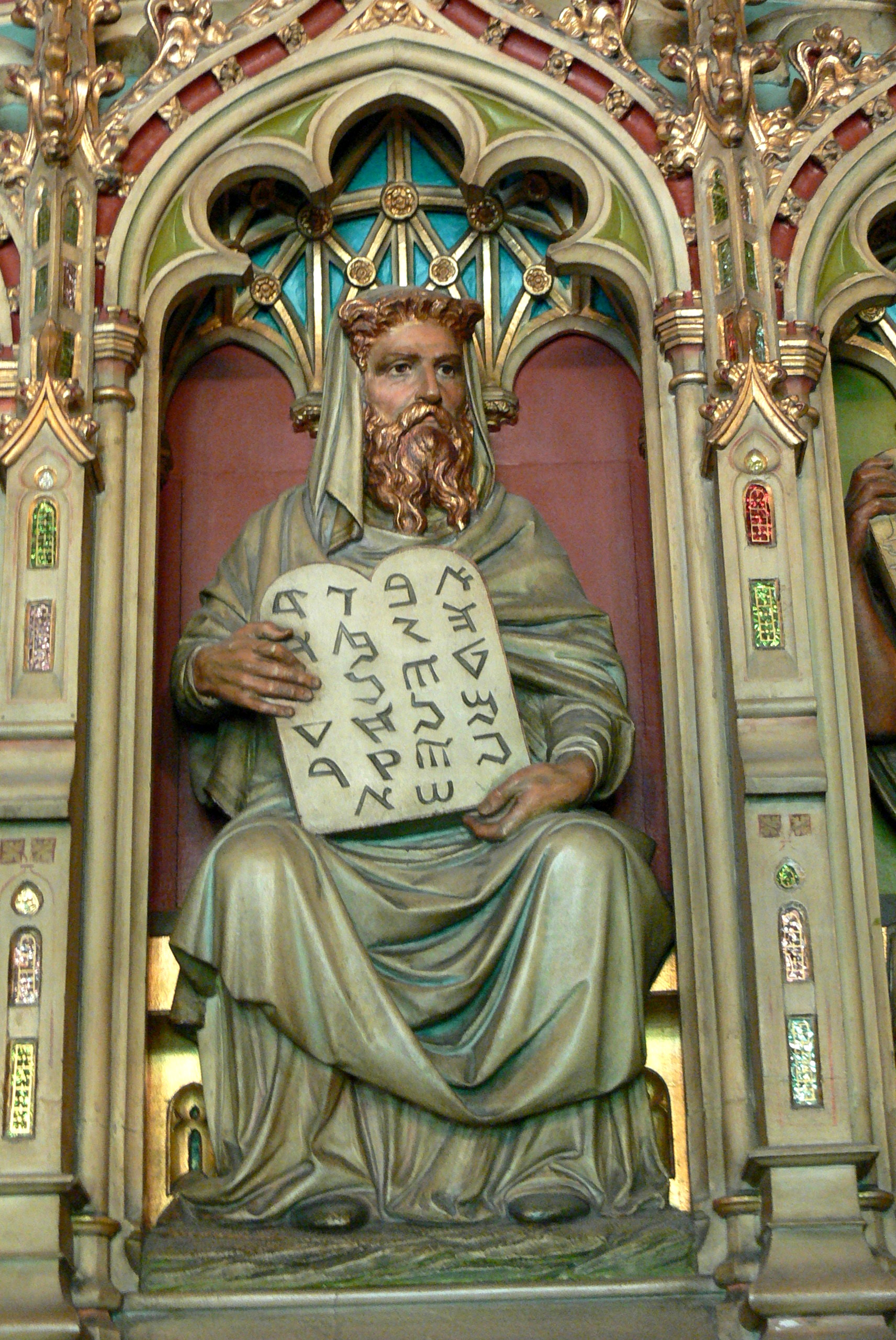 Cardiff Castle (Wales). Castle apartments: Library ( 1870s ) - Allegory of Aramaic literature (relief by Thomas Nicholls).